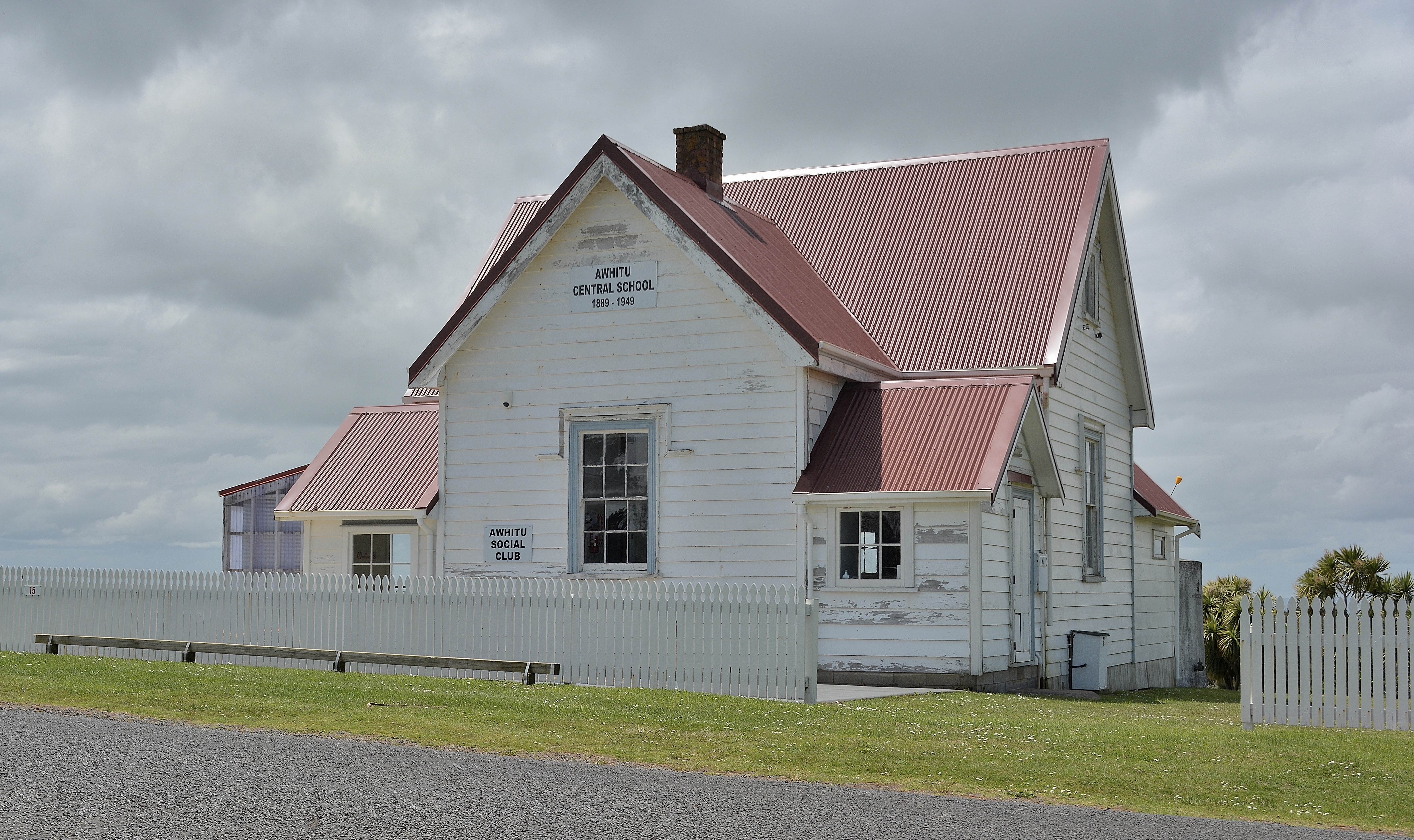 New Zealand